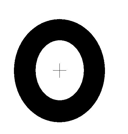 cyrcle of Emmert